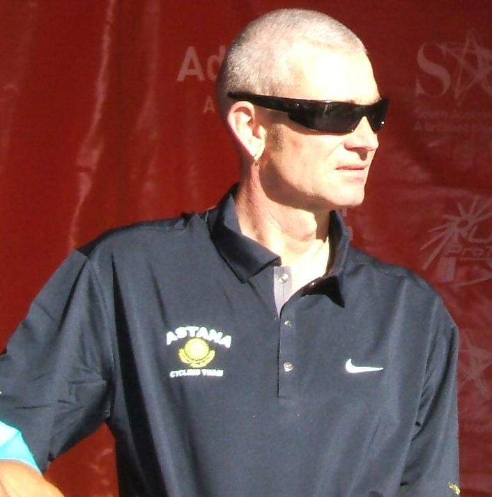 Named cyclist at the en:2009 Tour Down Under team presentation